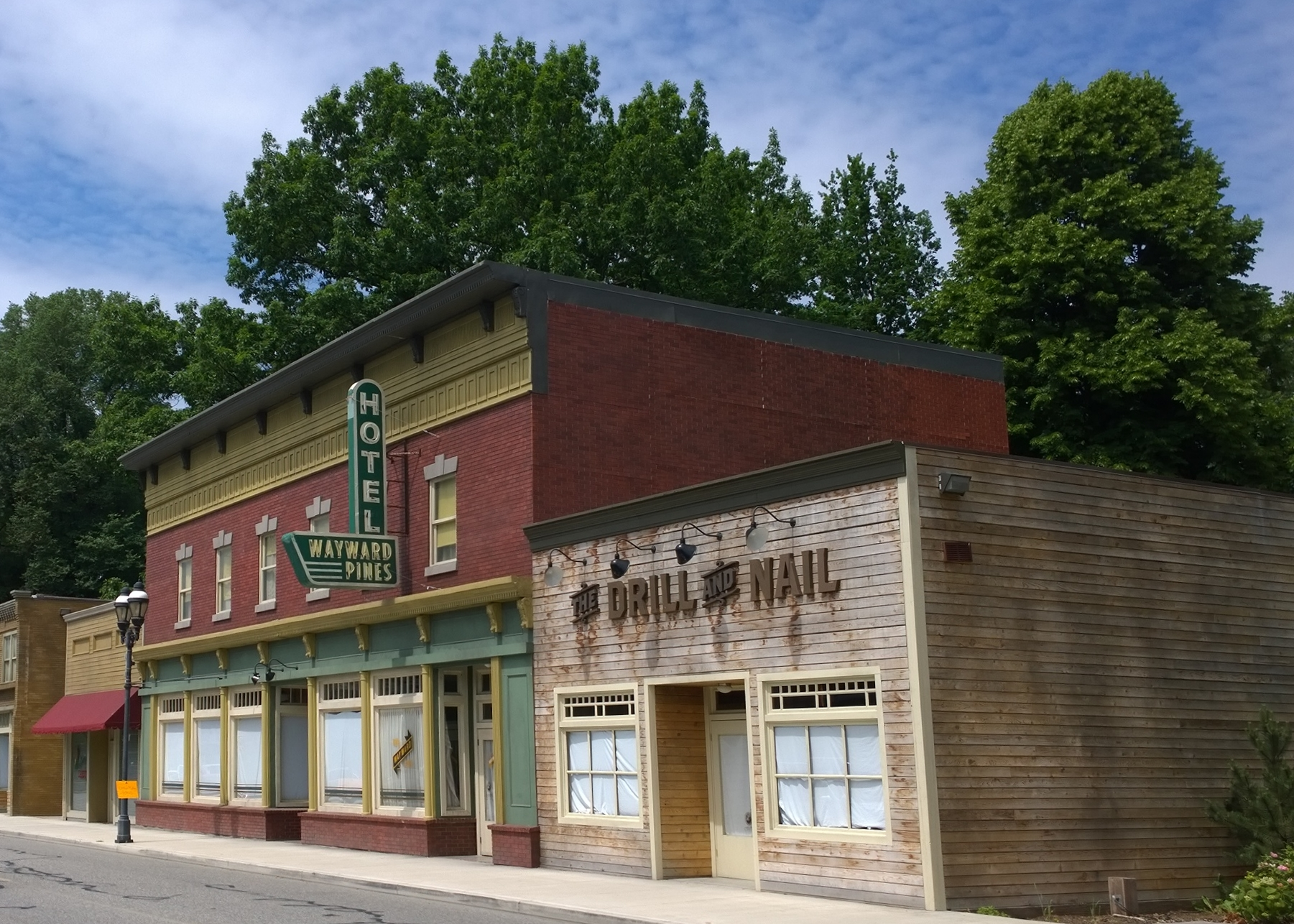 Film set of the television series Wayward Pines in Agassiz, British Columbia, Canada.On the left: the Wayward Pines Hotel.On the right: The Drill and Nail, an hardware store. see also [1] [2]